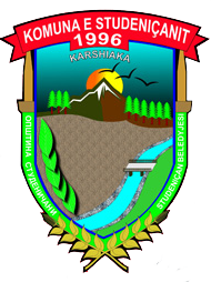 Coat of arms of Studeničani Municipality, Macedonia.